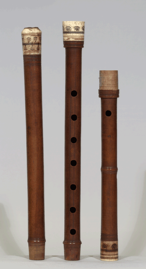 Kaval. Provided by the Library of congress